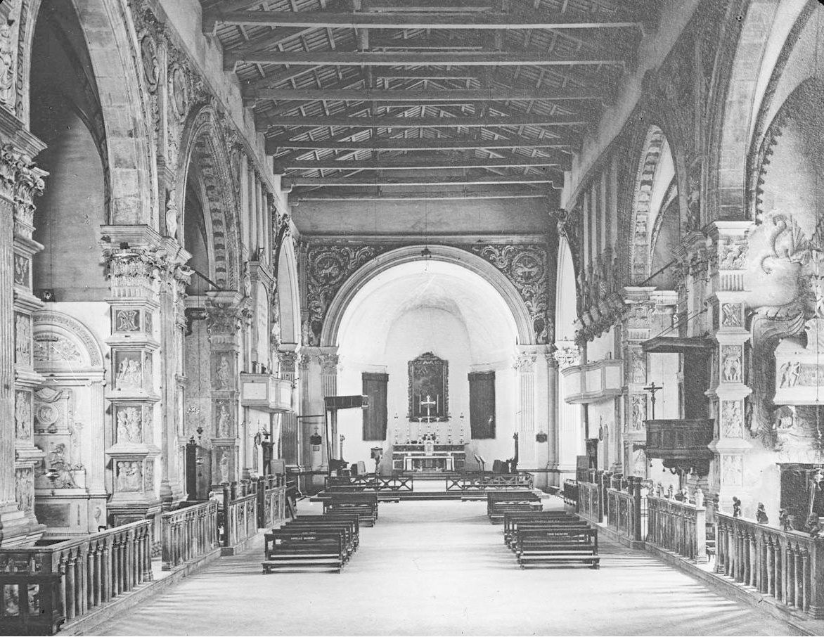 Interior of Tempio Malatestiano in Rimini, Italy, before 1944s bombing (1944 situation)